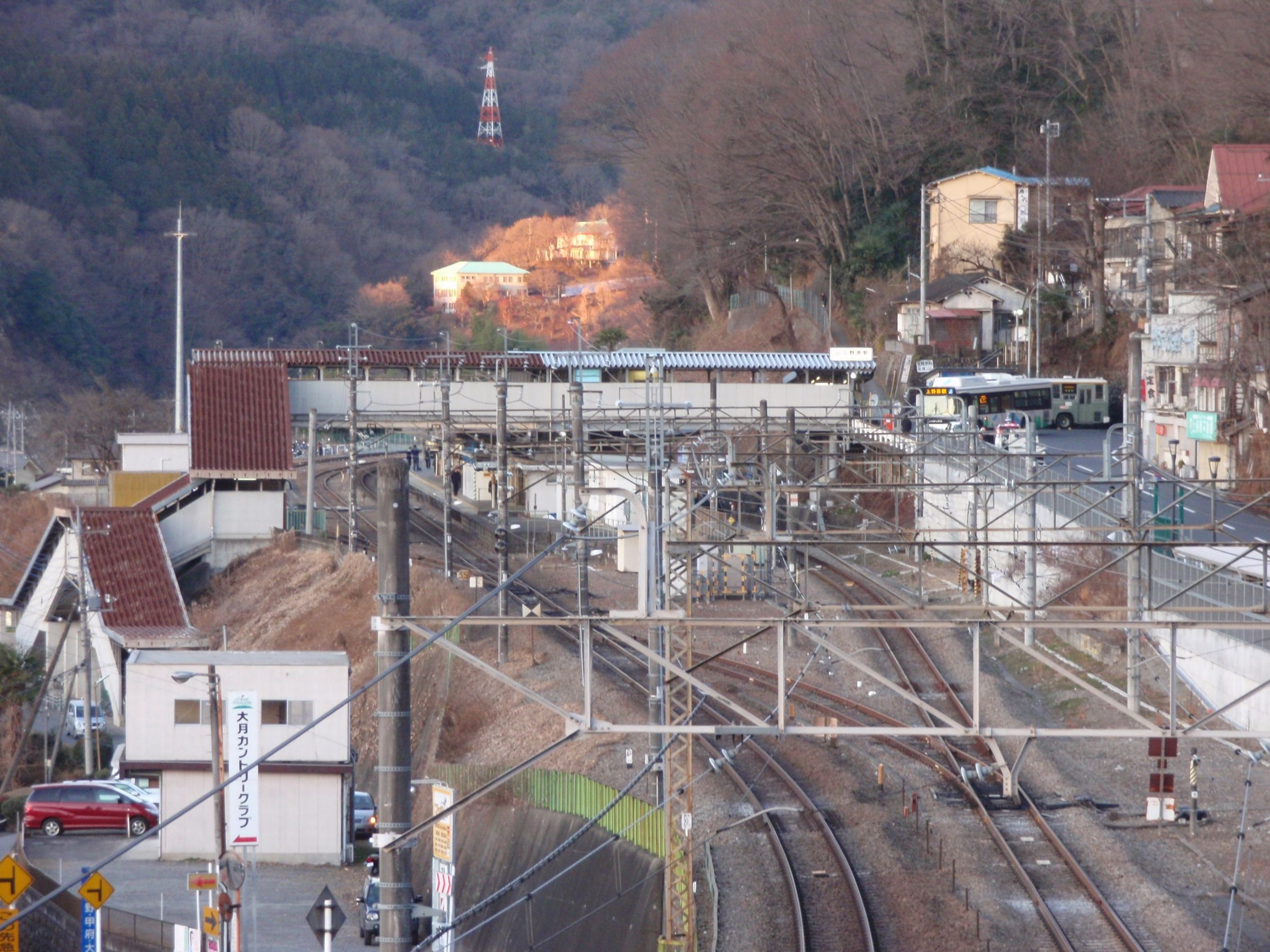 Uenohara Sta.